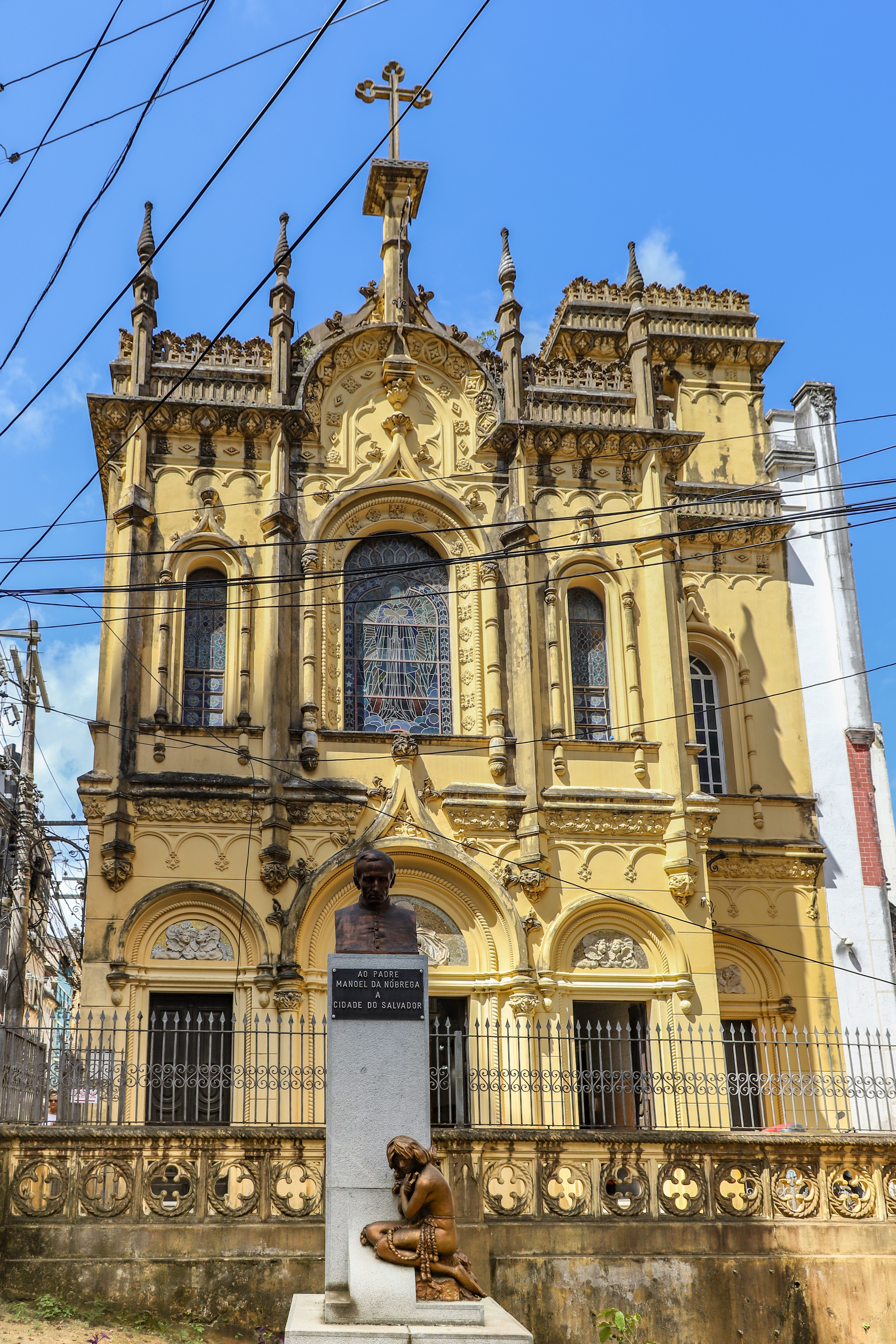 Chapel of Our Lady of Help (Capela da Ajuda), Centro, Salvador, Bahia, Brazil.